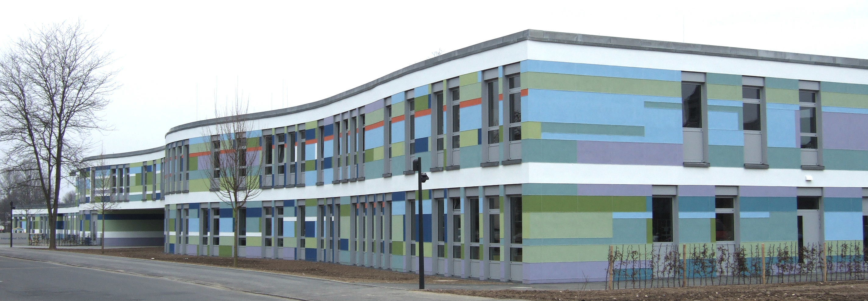 Building “Waves” (built in 2006) of Bonn International School, Martin-Luther-King-Straße 14, Bonn-Plittersdorf